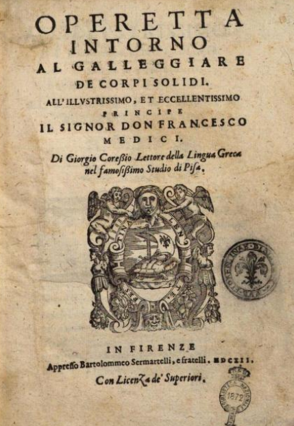 A work by one of Galileo's Aristotelian opponents